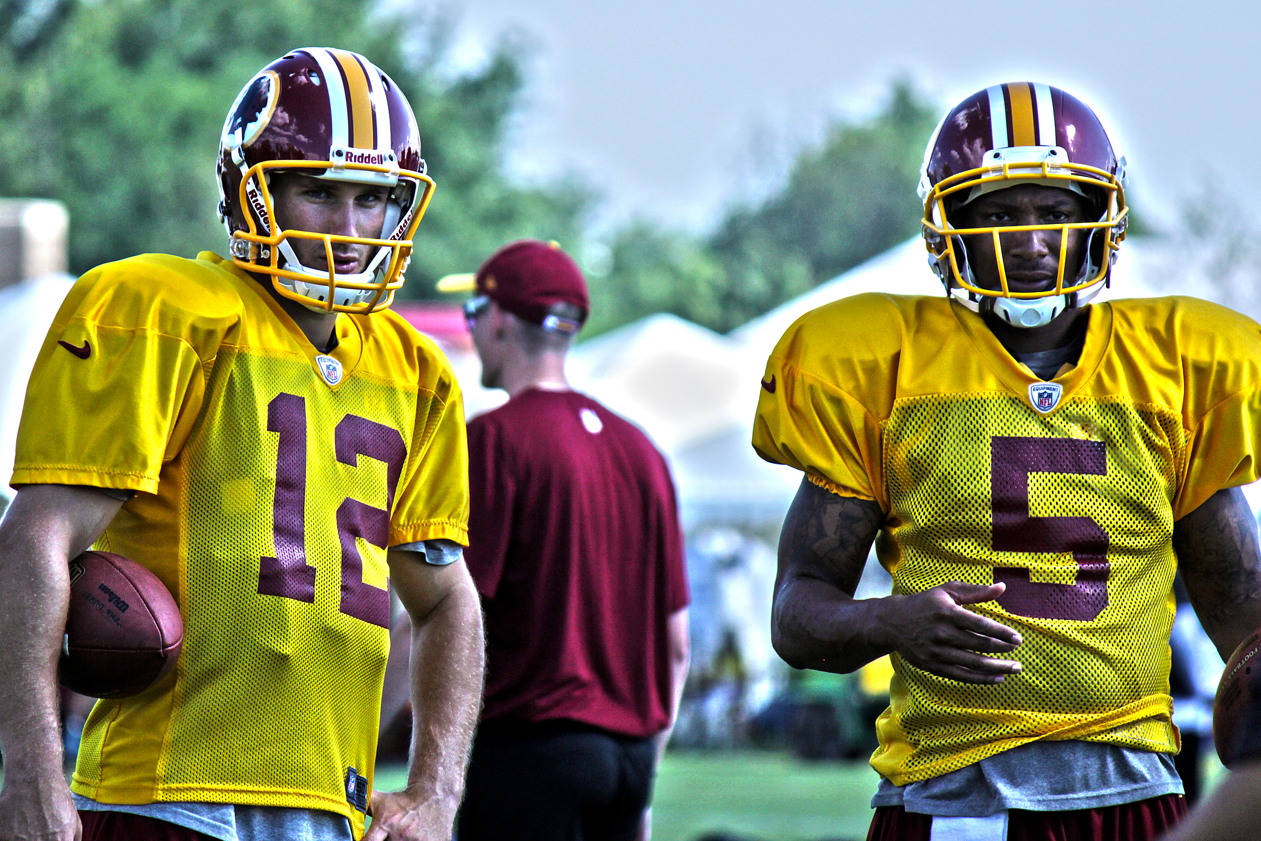 Quarterbacks Kirk Cousins and Pat White of the Washington Redskins.